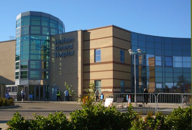 Hexham General Hospital This modern hospital replaced the original wartime emergency hospital which was in use until January 2004.